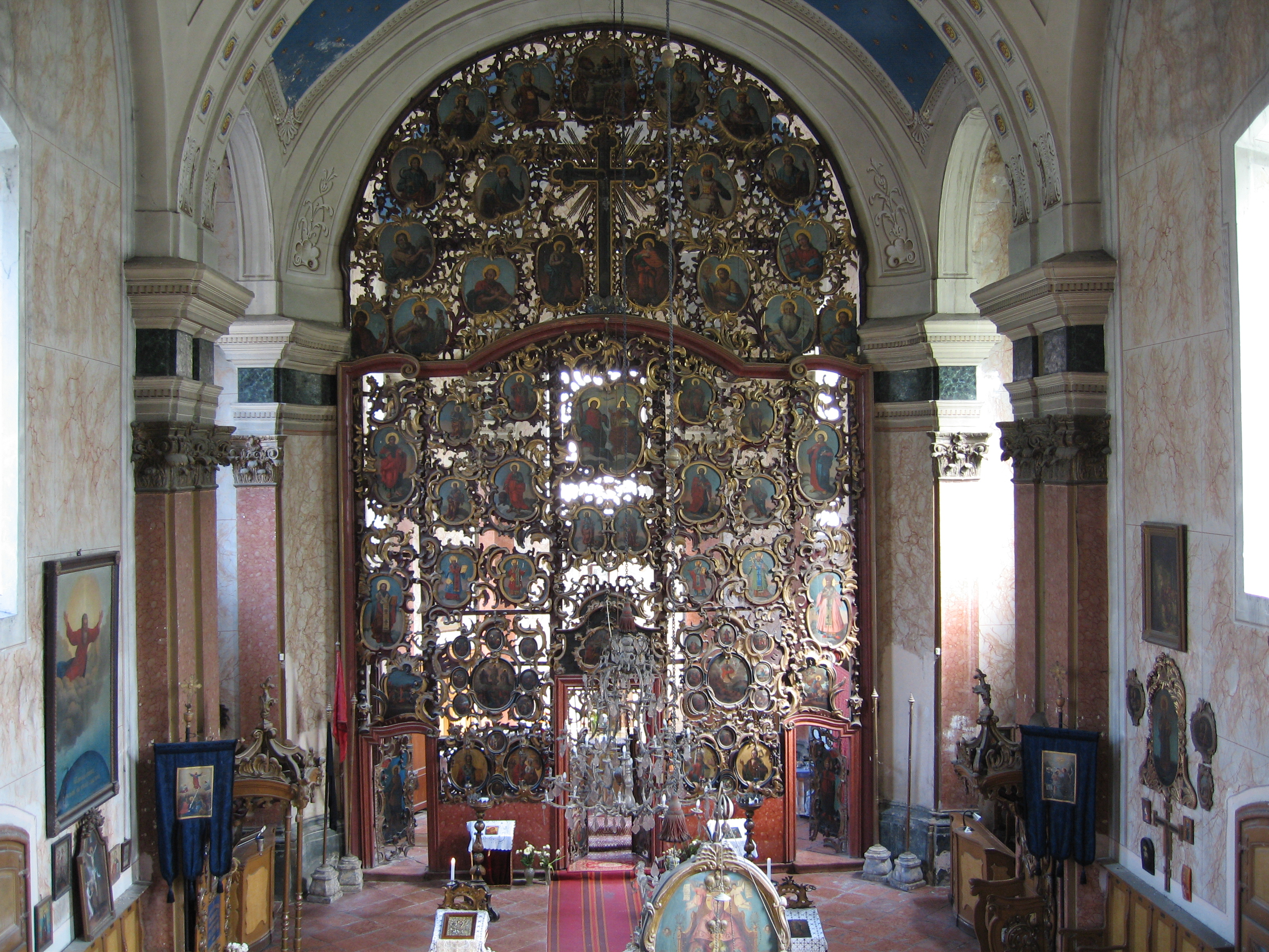 Szeged The interior with the icon wall of the Greek Orthodox Serbian Church This is a photo of a monument in Hungary. Identifier: 3526